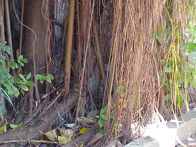 Species: Ficus elastica Family: Moraceae Image No. 1